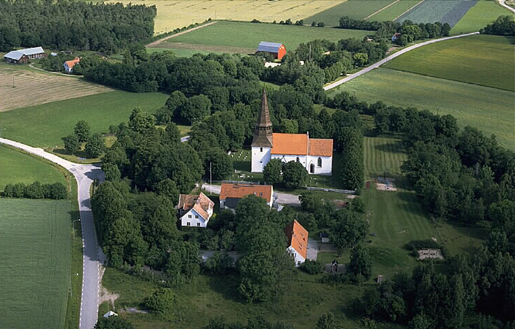 Hogrän Church, Hogrän Sweden. Black border cropped.